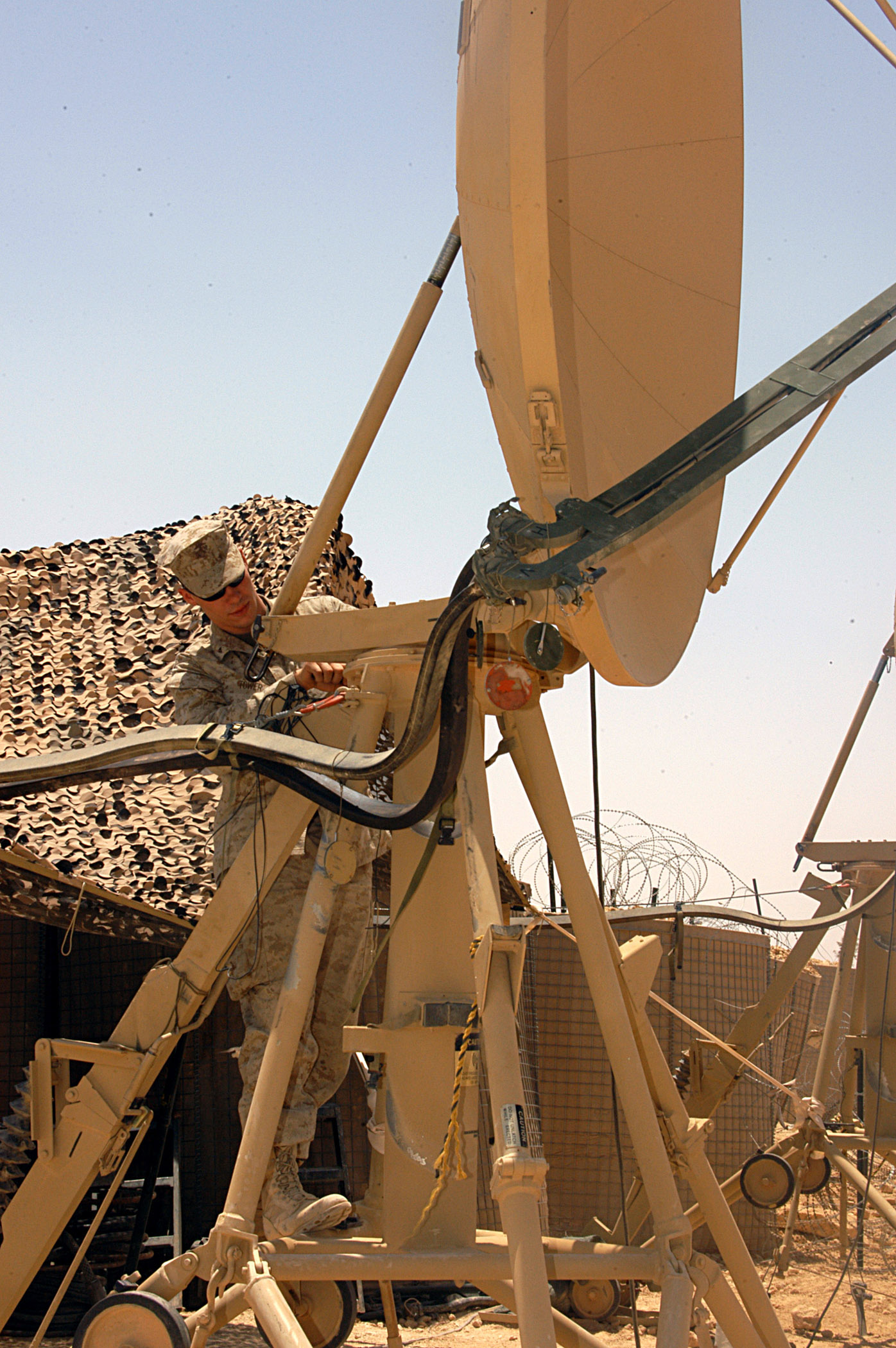 Al Asad, Iraq: Lance Cpl. Ryan J. Tower, multi-channel radio operator and native of Parsippany, N.J., adjusts the elevation on the antenna of a terminal radio component. The antenna receives data transmissions from remote forward operating posts in western Iraq 24-hours a day.